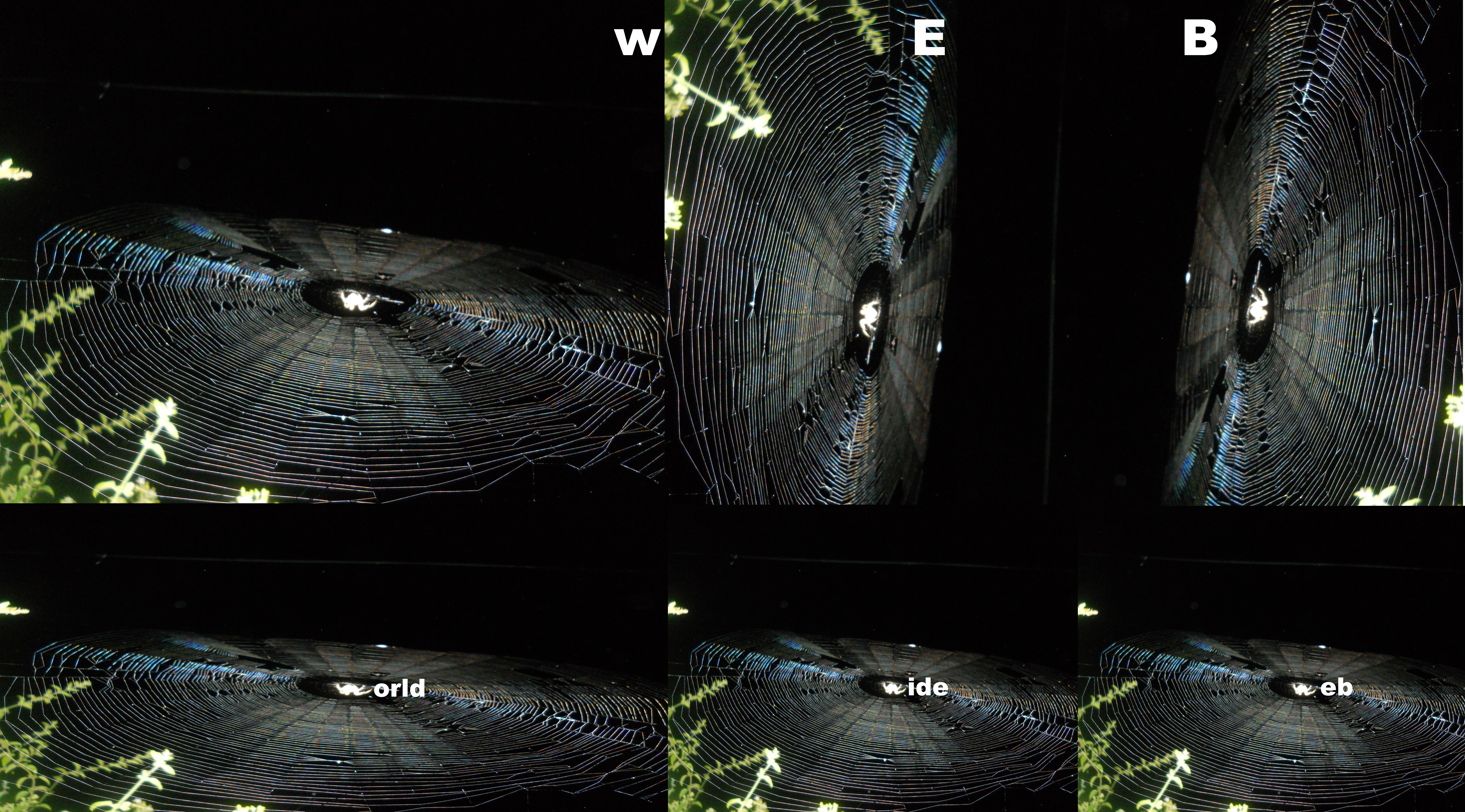 Spider Web to World Wide Web (This photo at Vinjamoor, Nellore district, A.P, India) - in image "W" letter orginala Spider